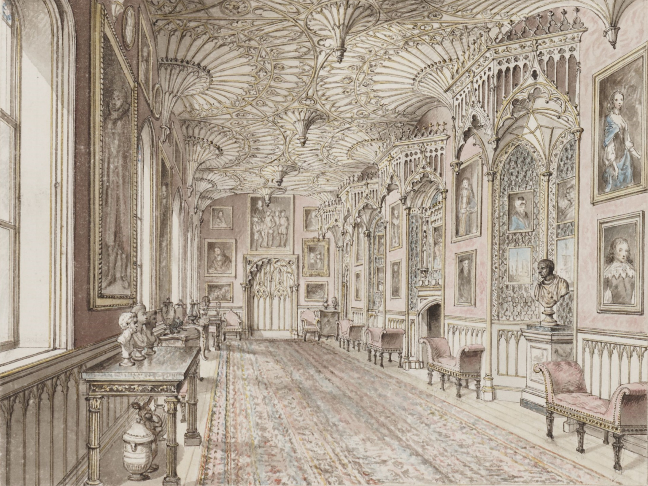 The gallery at Strawberry Hill